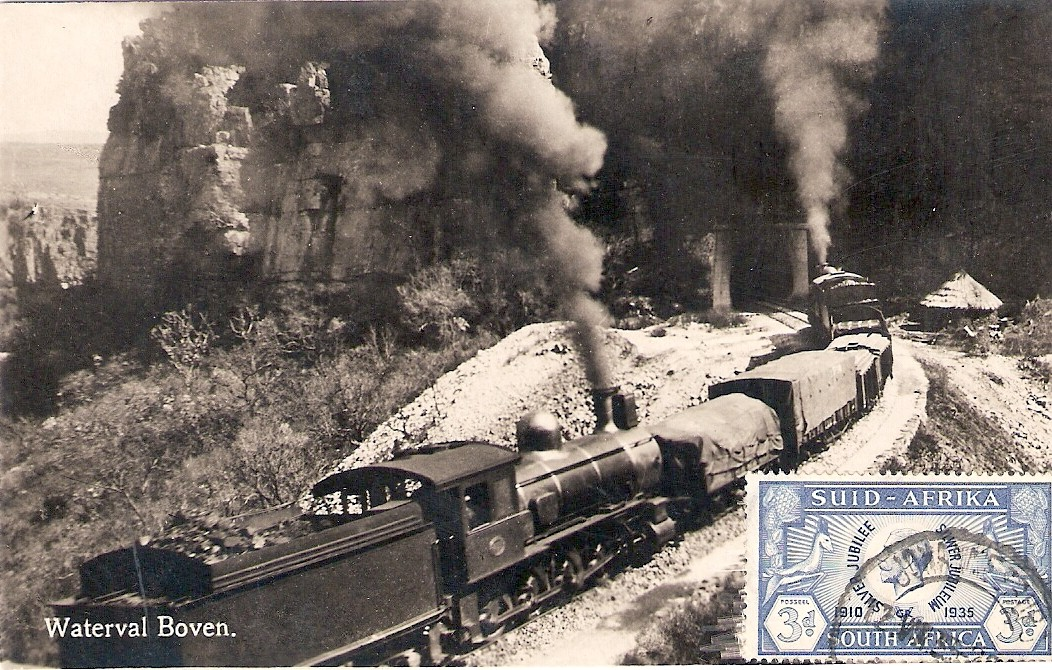 Ex Central South African Railways Class 8-L2 (4-8-0)South African Railways Class 8B (4-8-0)Location Waterval Boven tunnel